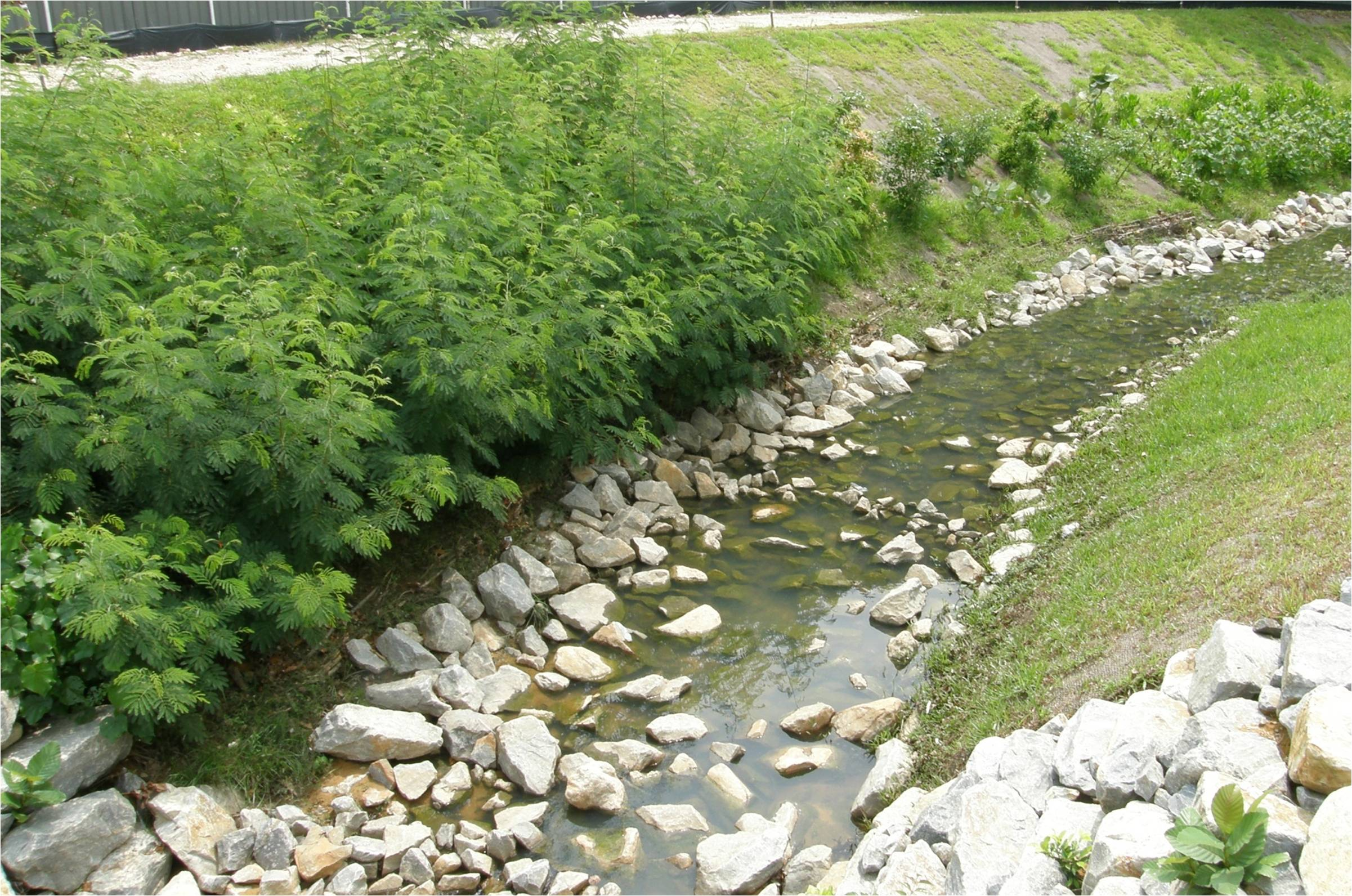 Before the river was constructed, various soil bio-engineering techniques were tested in the test bed.